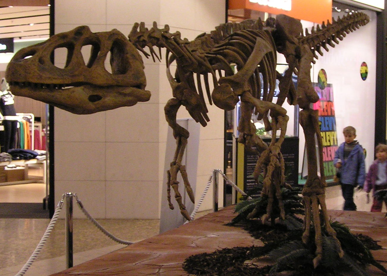 Piatnitzkysaurus floresi - this agile and terrible predator of Patagonia is related to the allosaurs of the Northern Hemisphere. It is one of the few known carnivores from the Jurassic of Gondwana.